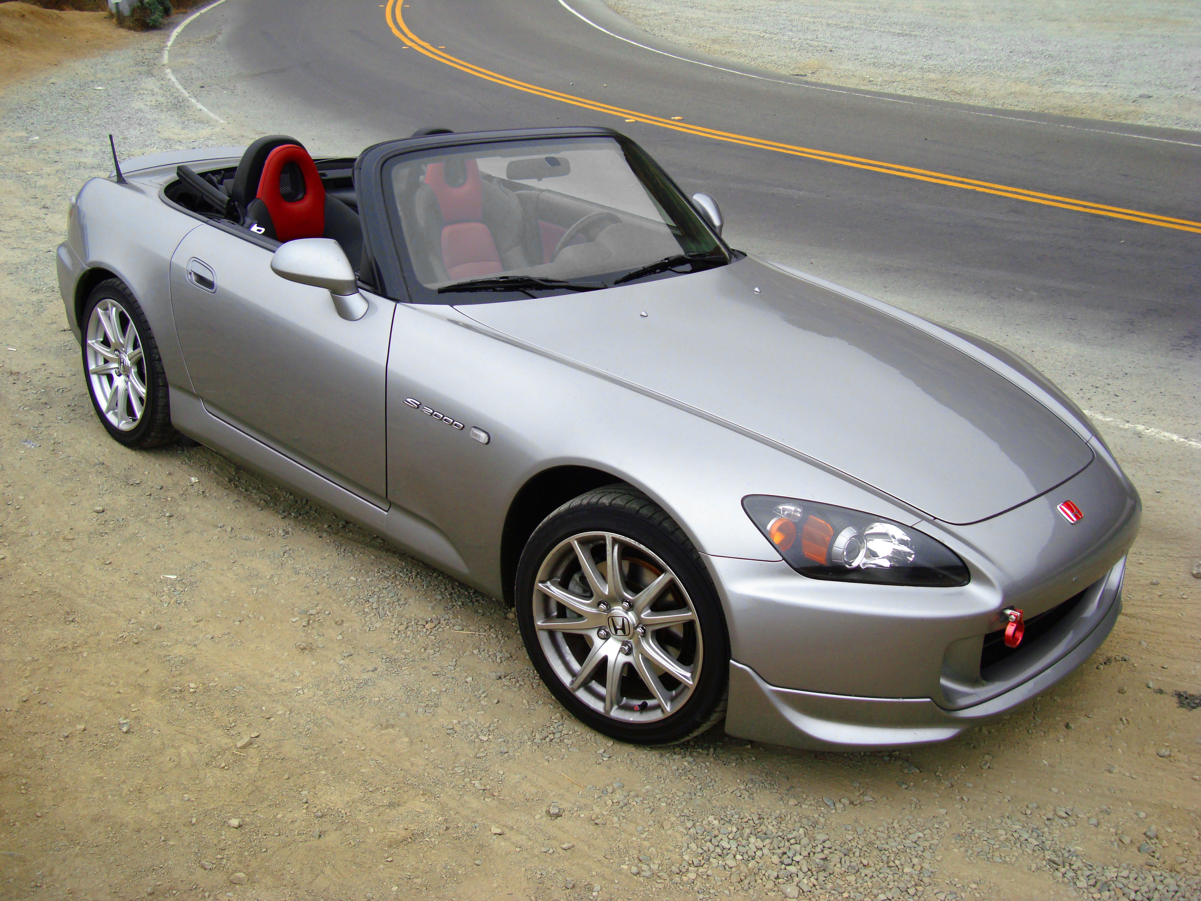 2005 Honda S2000. Camera used was a Sony Ericsson DSC-W200.